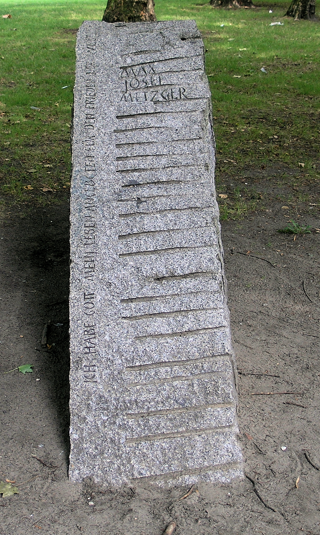 Memorial stone, Max Josef Metzger, Max-Josef-Metzger-Platz , Berlin-Wedding, Germany